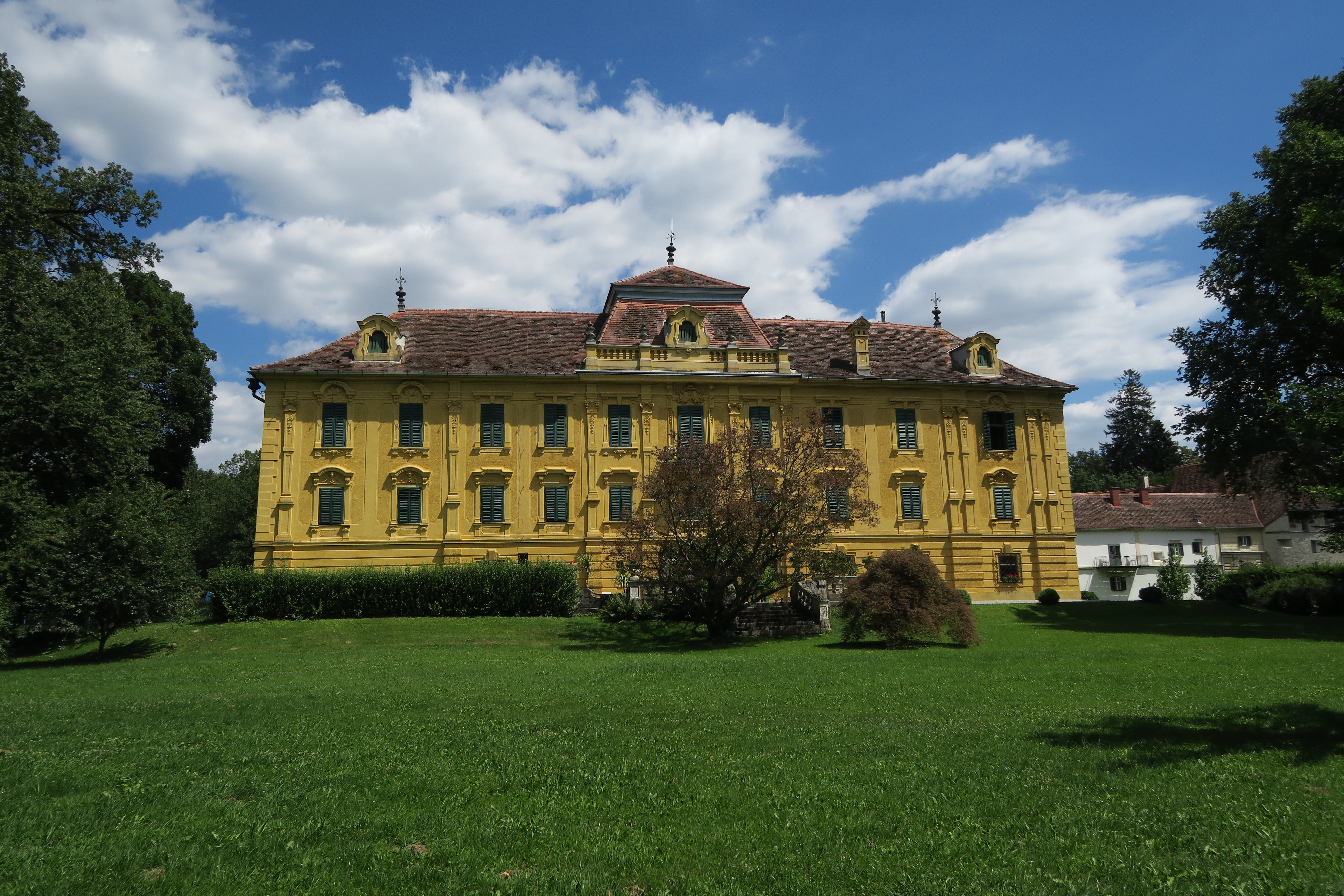 Castle Neudau